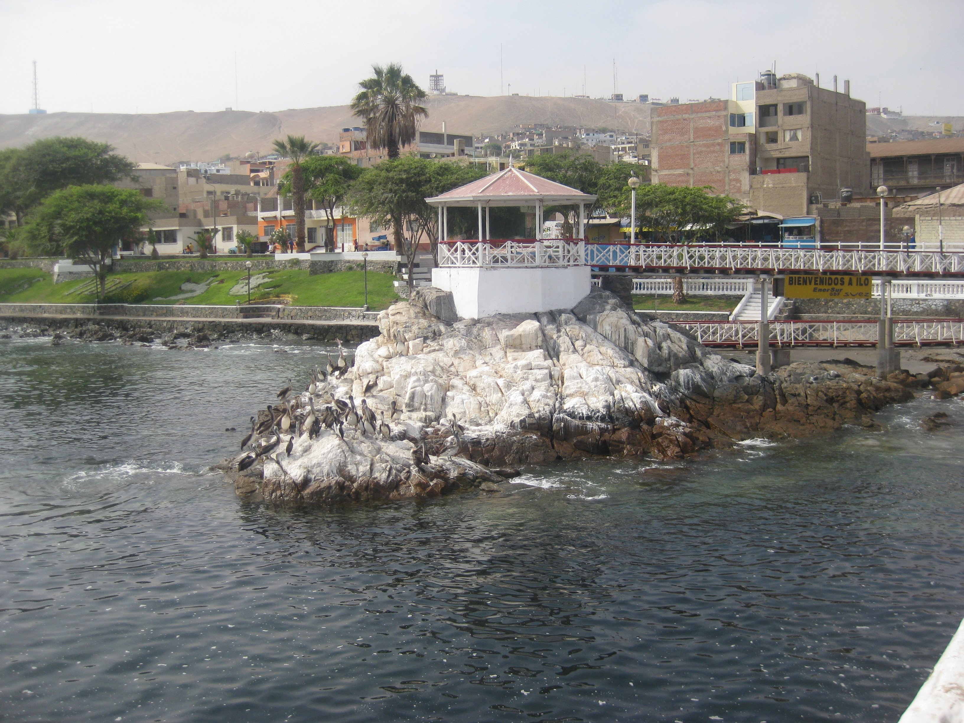 Photos from the visit of the Bolivian "Hermanos Laicos" to Ilo, Peru.